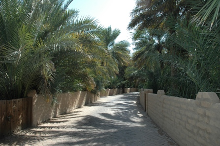 One of the alleys in the largest Oasis in Al Ain City (Al Ain Oasis)